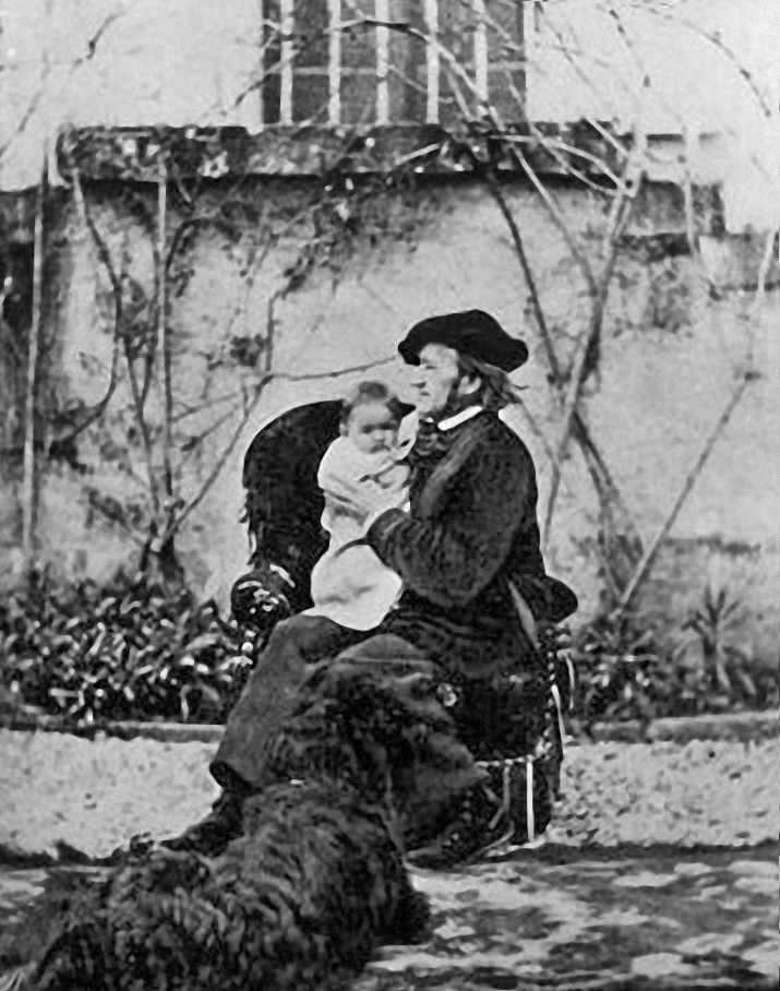 Richard Wagner with his baby daughter Eva at Tribschen